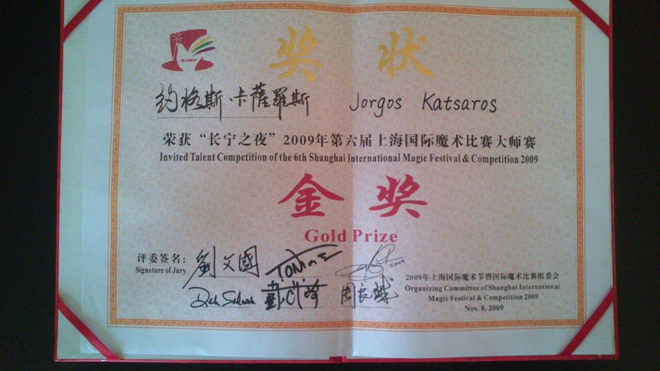 Gold Prize 6th Shanghai International Magic Festival 2009